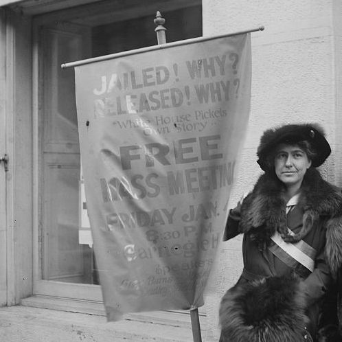 Bain News Service,, publisher. Julia Hurlbut -- Mrs. J.W. Brannan [between ca. 1915 and ca. 1920] 1 negative : glass ; 5 x 7 in. or smaller. Notes: Title from unverified data provided by the Bain News Service on the negatives or caption cards. Forms part of: George Grantham Bain Collection (Library of Congress). Format: Glass negatives. Repository: Library of Congress, Prints and Photographs Division, Washington, D.C. 20540 USA, General information about the Bain Collection is available at Higher resolution image is available (Persistent URL): Call Number: LC-B2- 4427-1